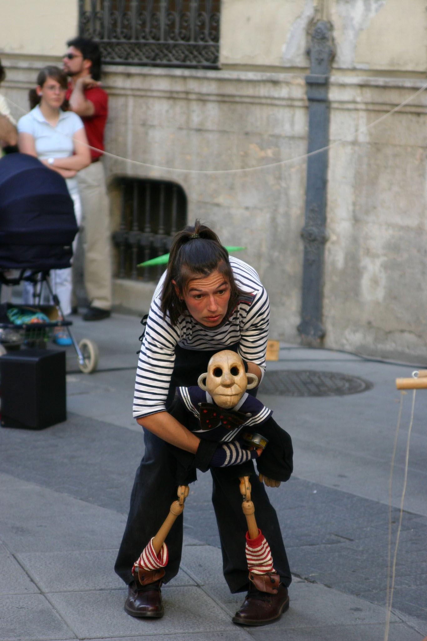 Four eyes looking in one direction :-)